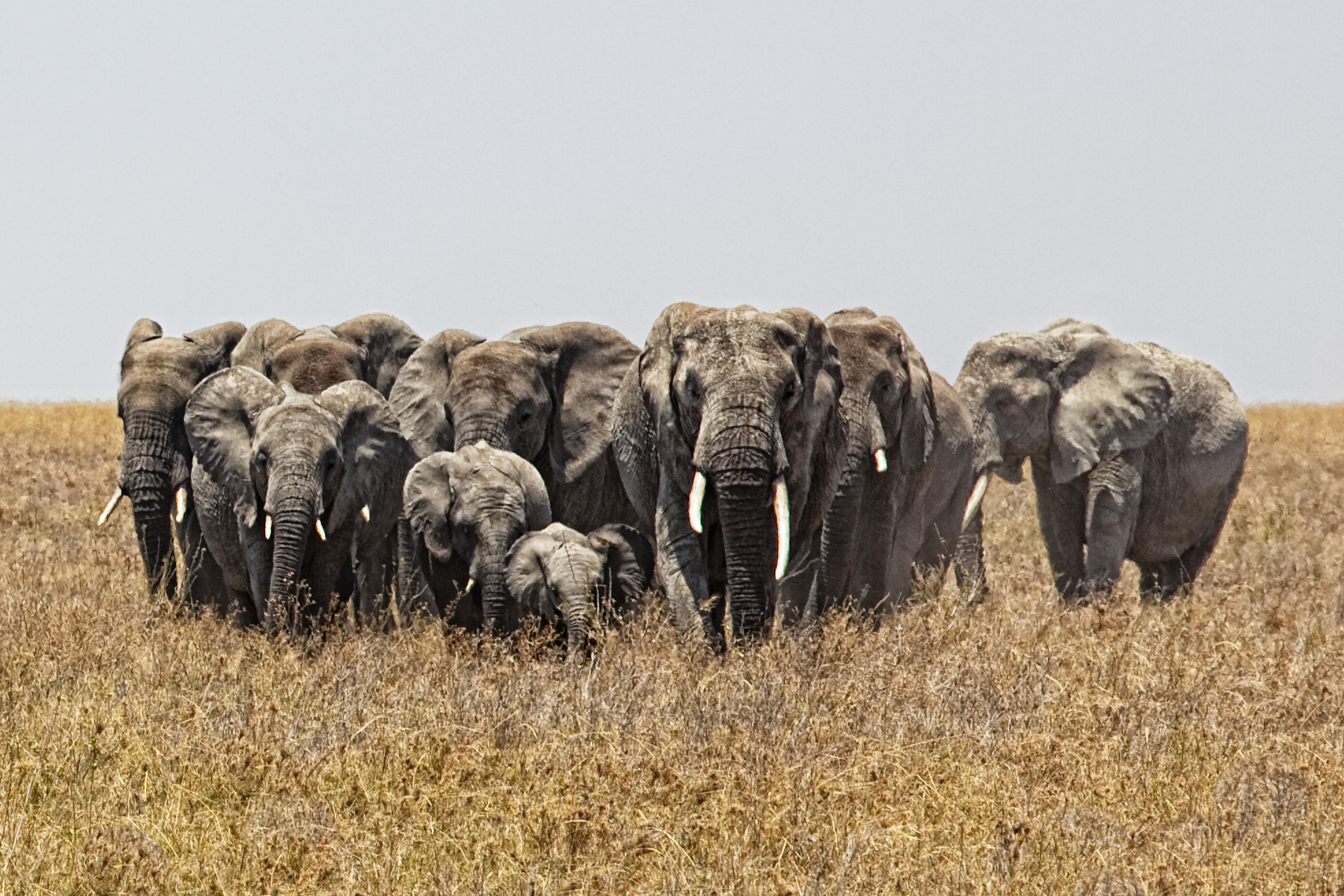 Elephants in Serengeti National Park, Tanzania